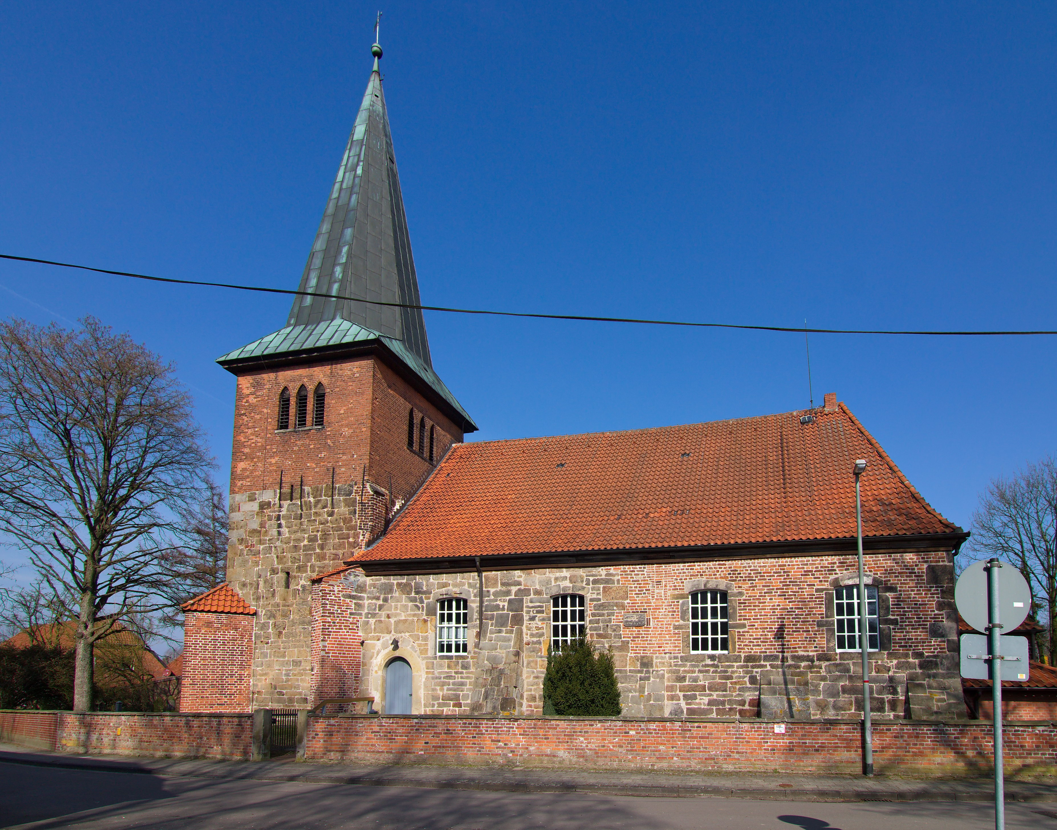 Die St.-Martin-Kirche in Holtorf (Nienburg) , Niedersachsen, Deutschland, wurde 1096 erstmals erwähnt..